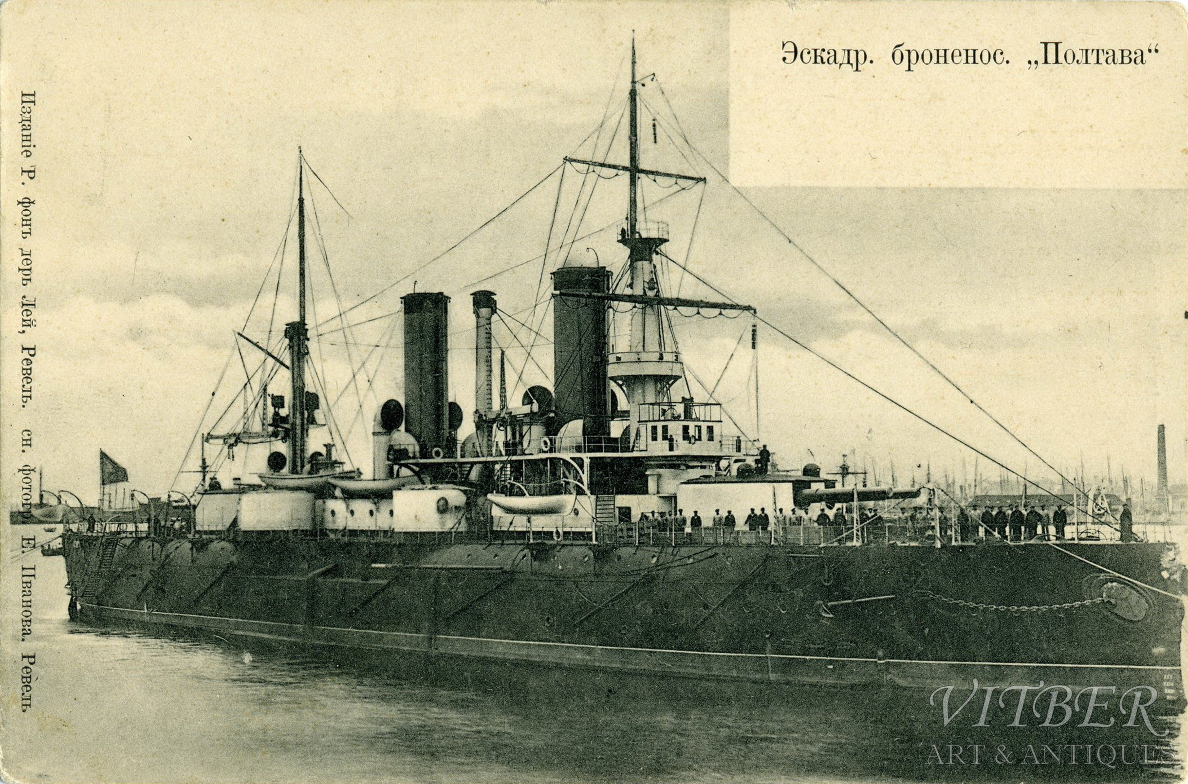 A German postcard of the Russian battleship Poltava